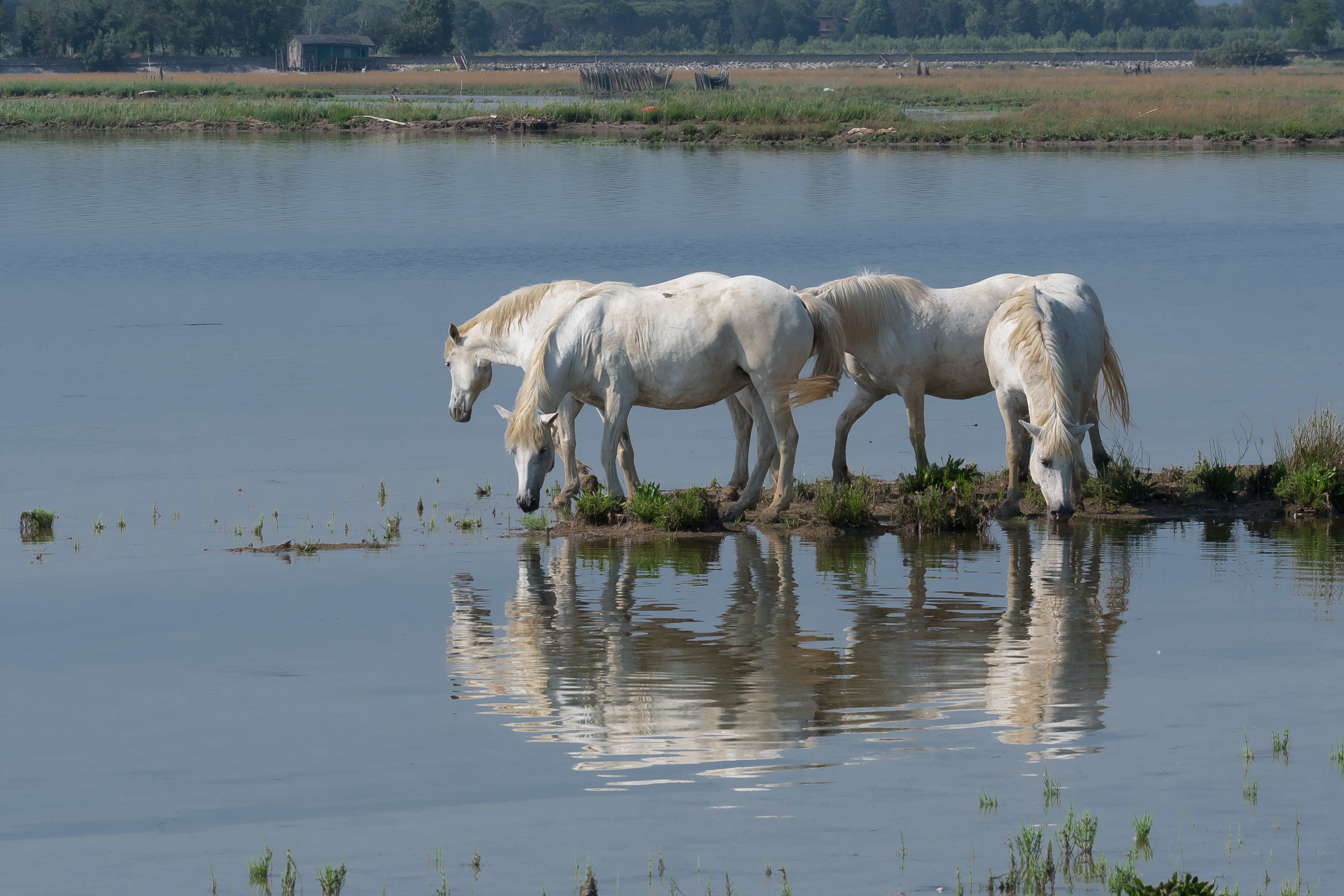 Feral Camargue horses in Riserva naturale della Foce dell'Isonzo/ Friuli-Venezia Giulia / Italy